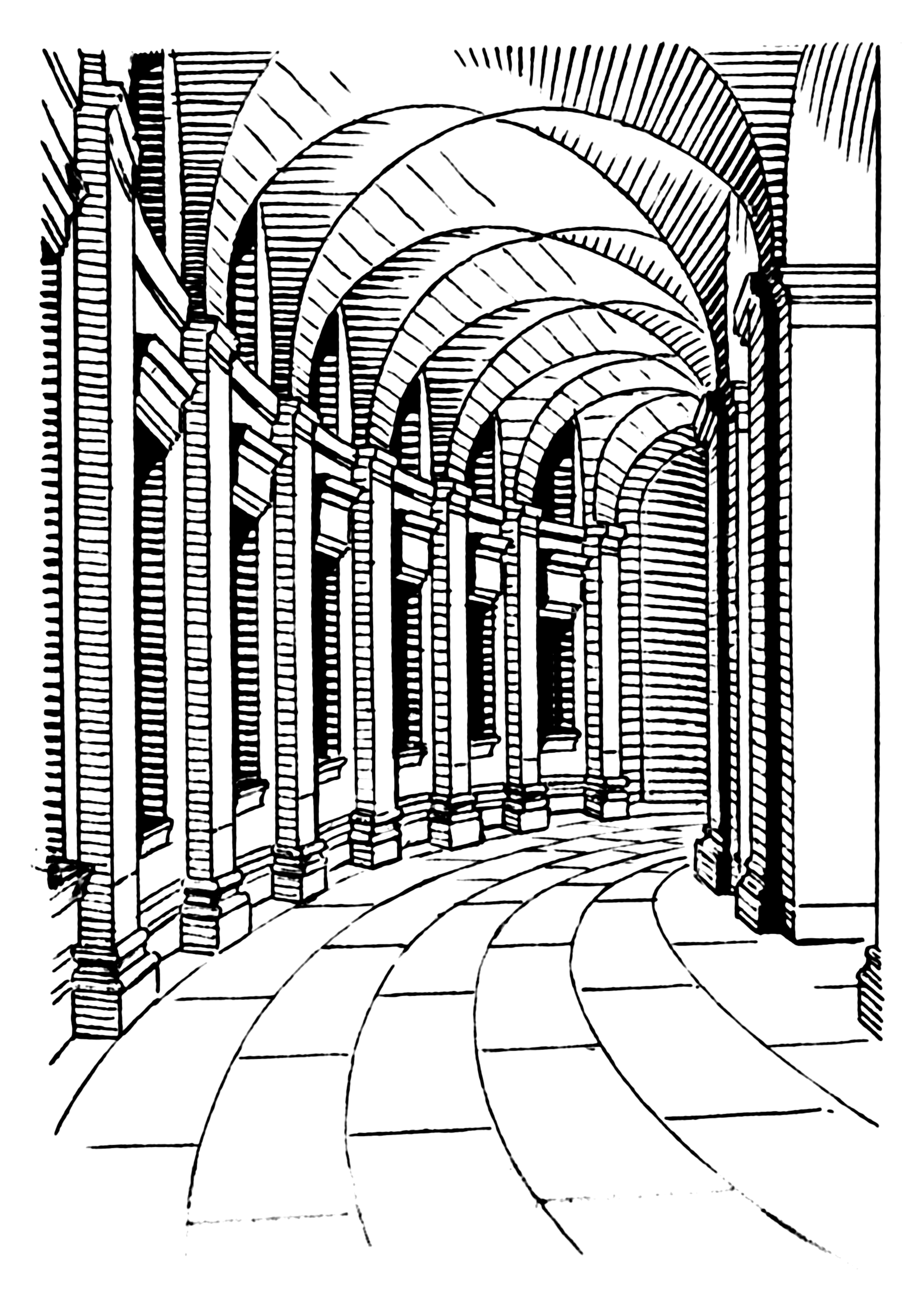 Line art drawing of an arcade.